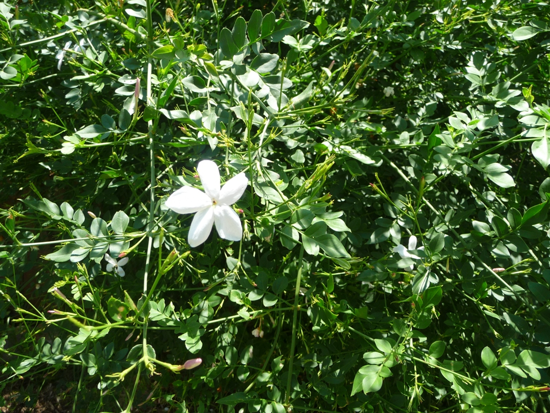 Jasminum grandiflorum